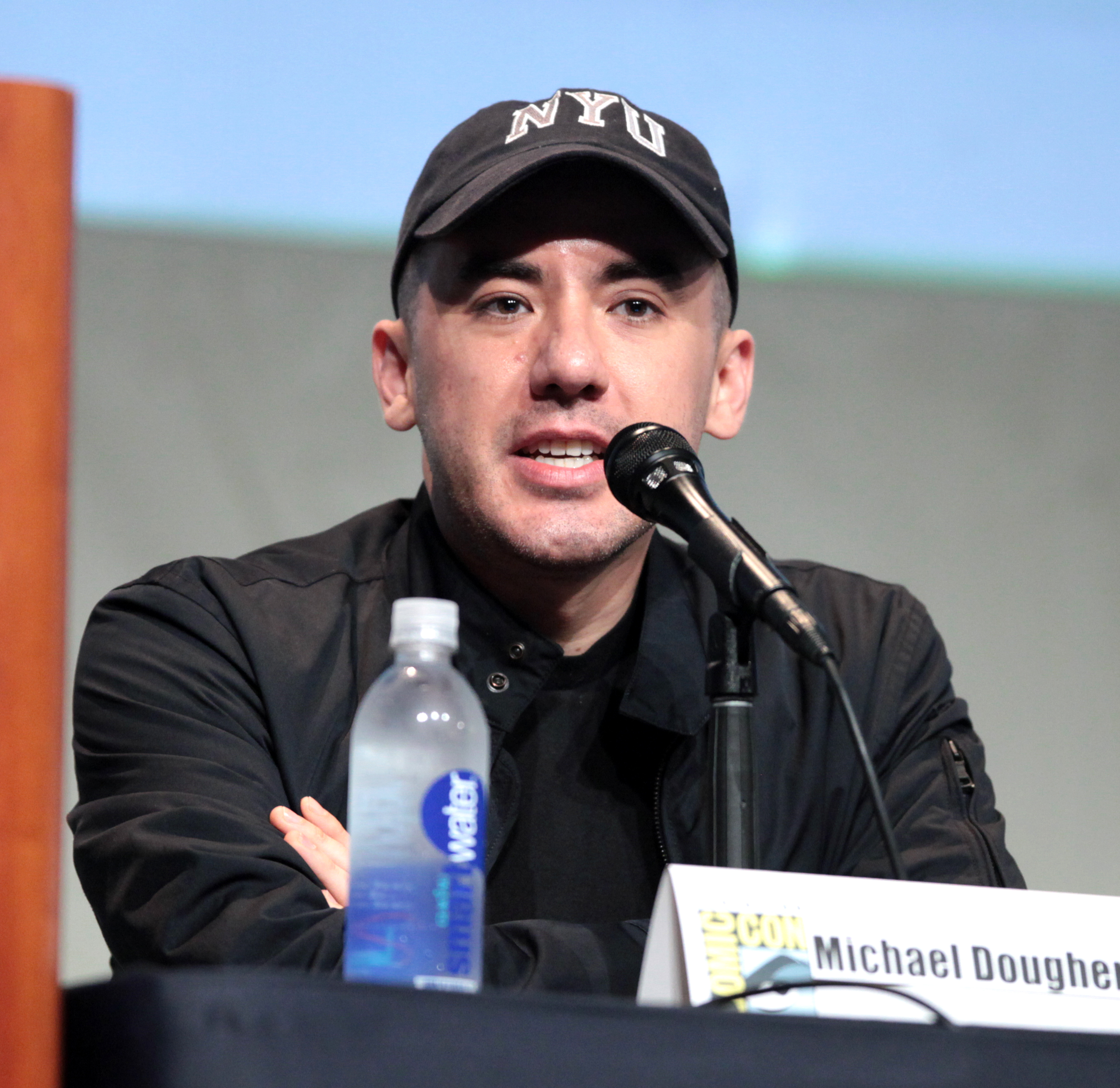 Michael Dougherty speaking at the 2015 San Diego Comic Con International, for "Krampus", at the San Diego Convention Center in San Diego, California.